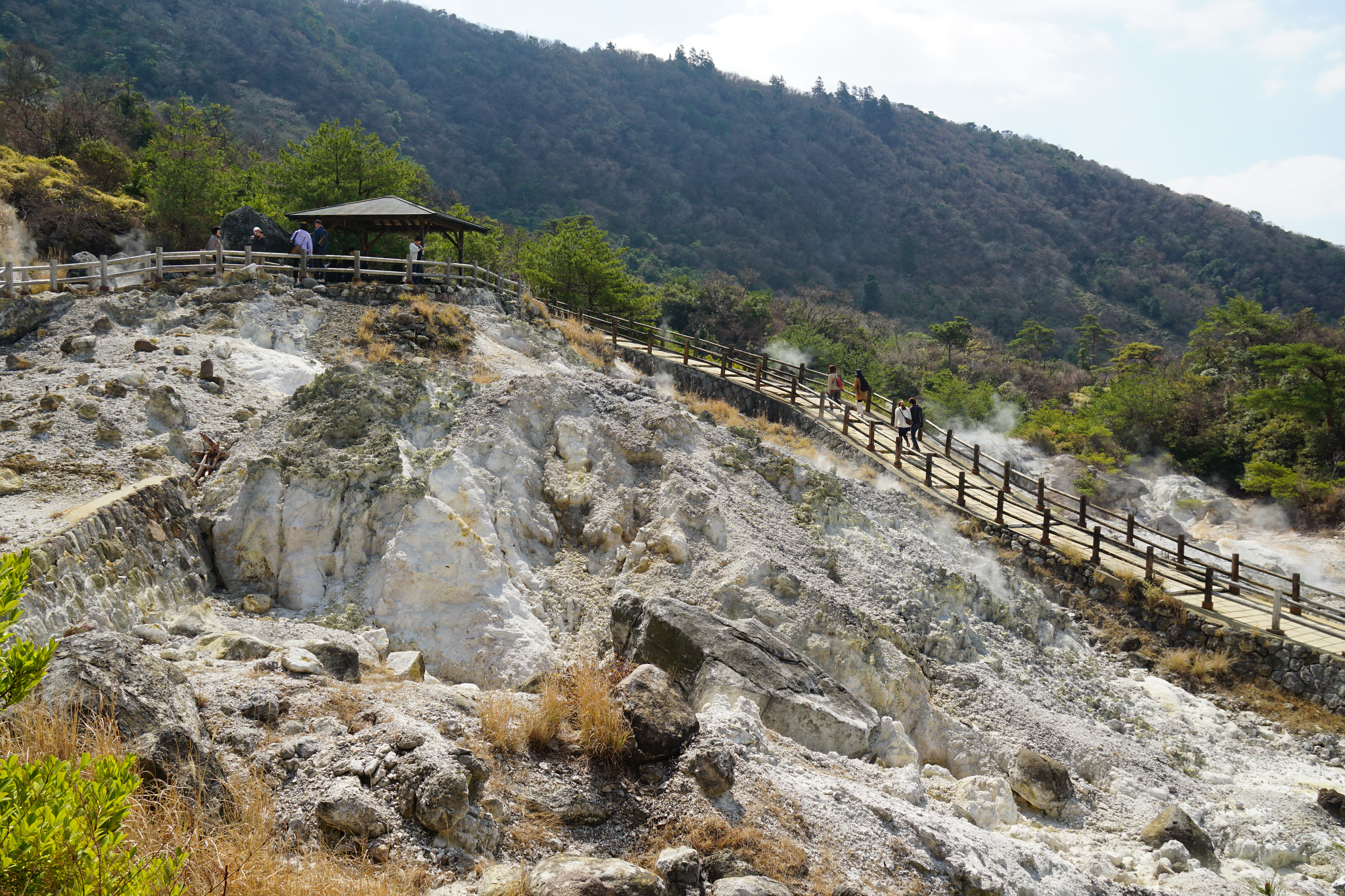 Jigoku of Unzen Onsen in Unzen City, Nagasaki prefecture, Japan.